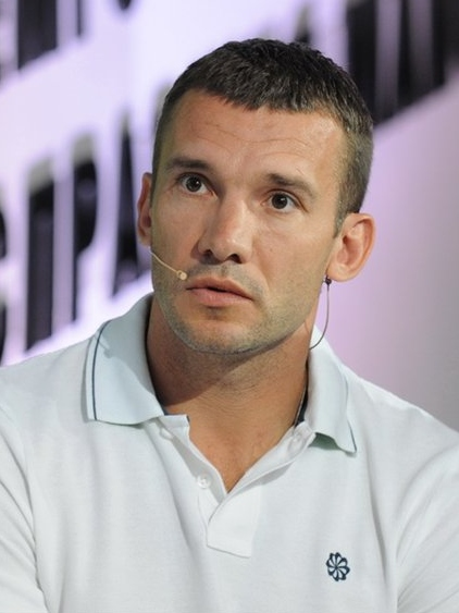 Andriy Shevchenko, Nike Clash Collection 2012